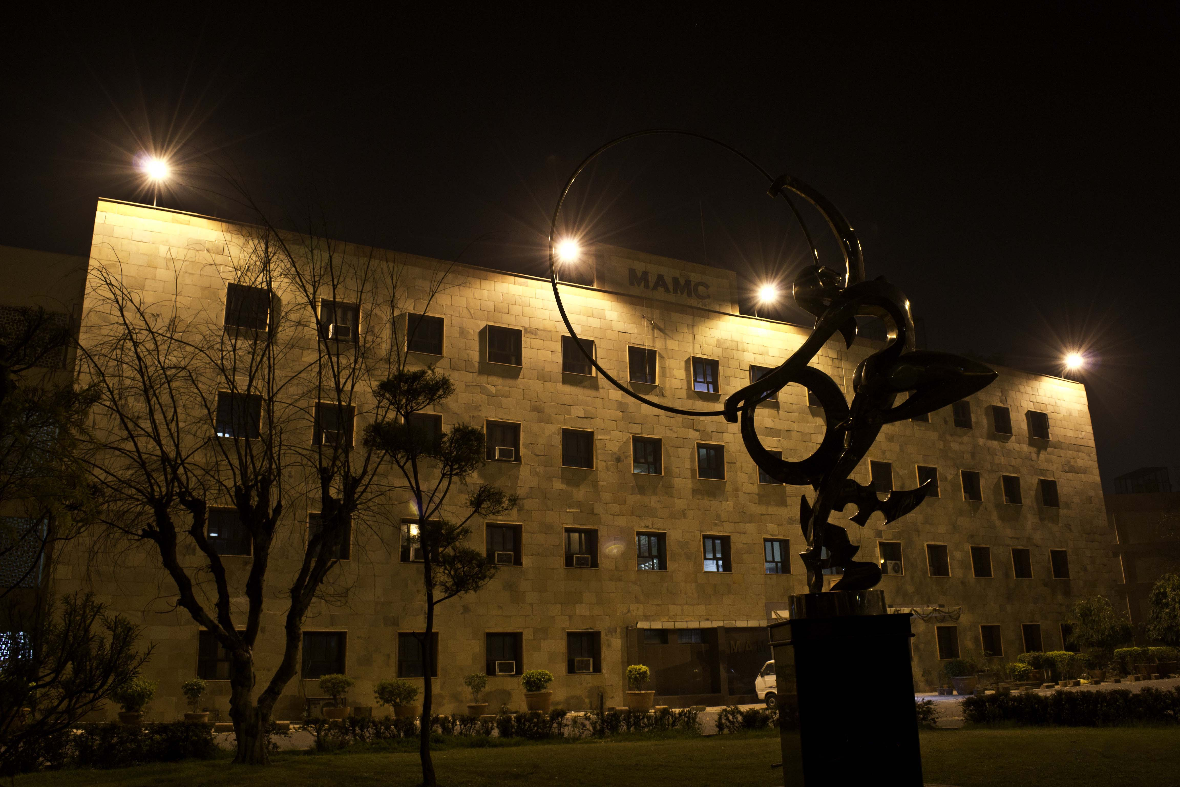 This is a pic of MAMC main building taken at night....